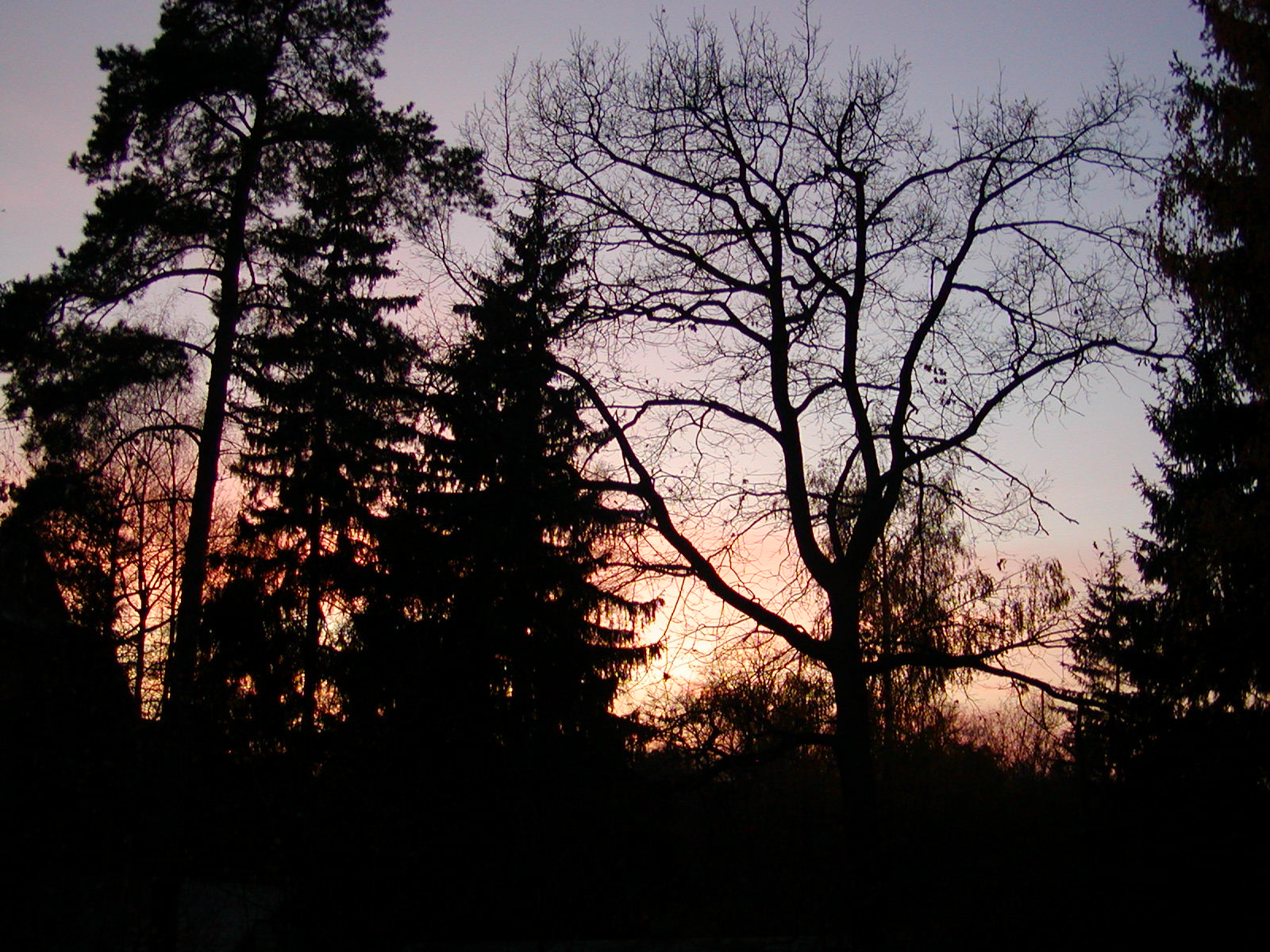 Autumnal setting in Ababurovo